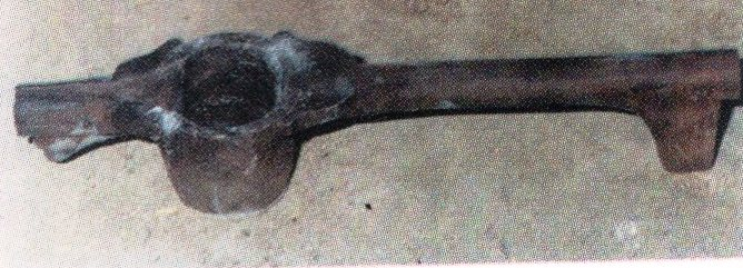 Agnihotrahavani is a yajna implement संस्कृतम्: अग्निहोत्रहवणी